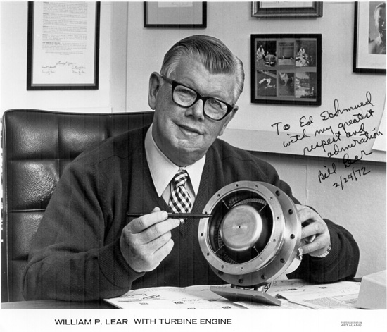 William P. Lear with turbine engine